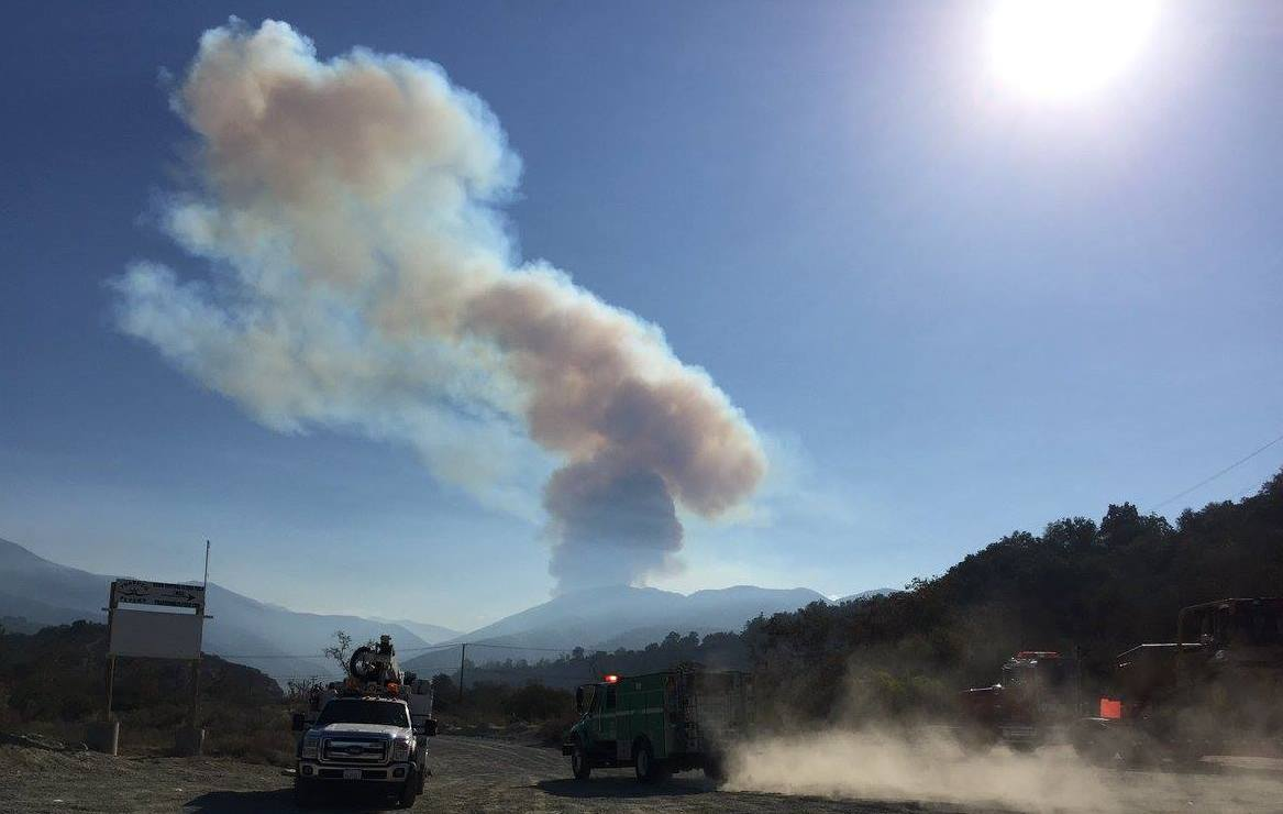 CAL FIRE is assisting the U.S. Forest Service - Cleveland National Forest with a 125 acre fire off Trabuco Creek Rd near Holy Jim Trail (Orange County) #HolyFire Photo credit: Cleveland National Forest